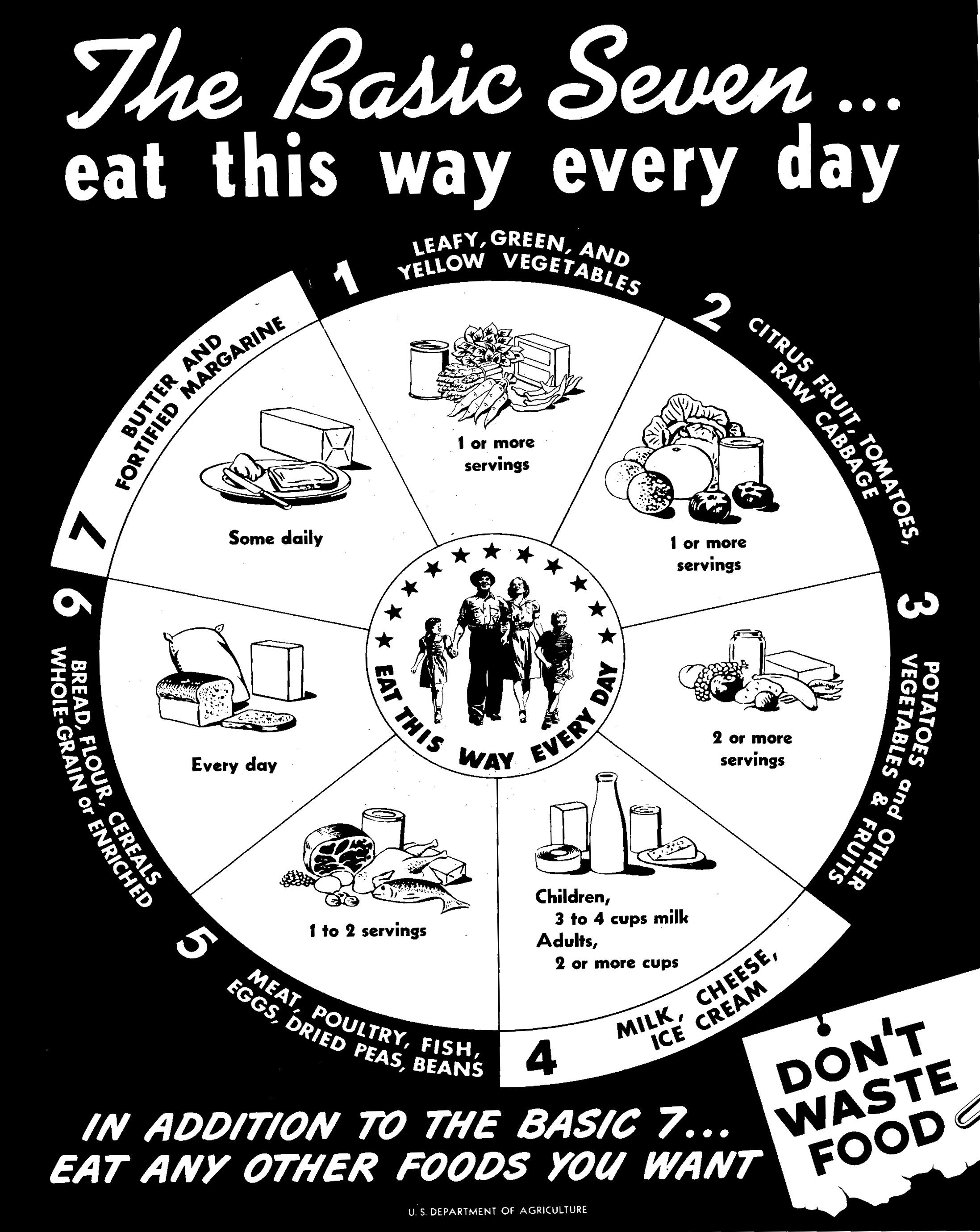 The origin of the food pyramid was the Basic Seven and revised in September 1946. Photo courtesy of National Archives and Records Administration.